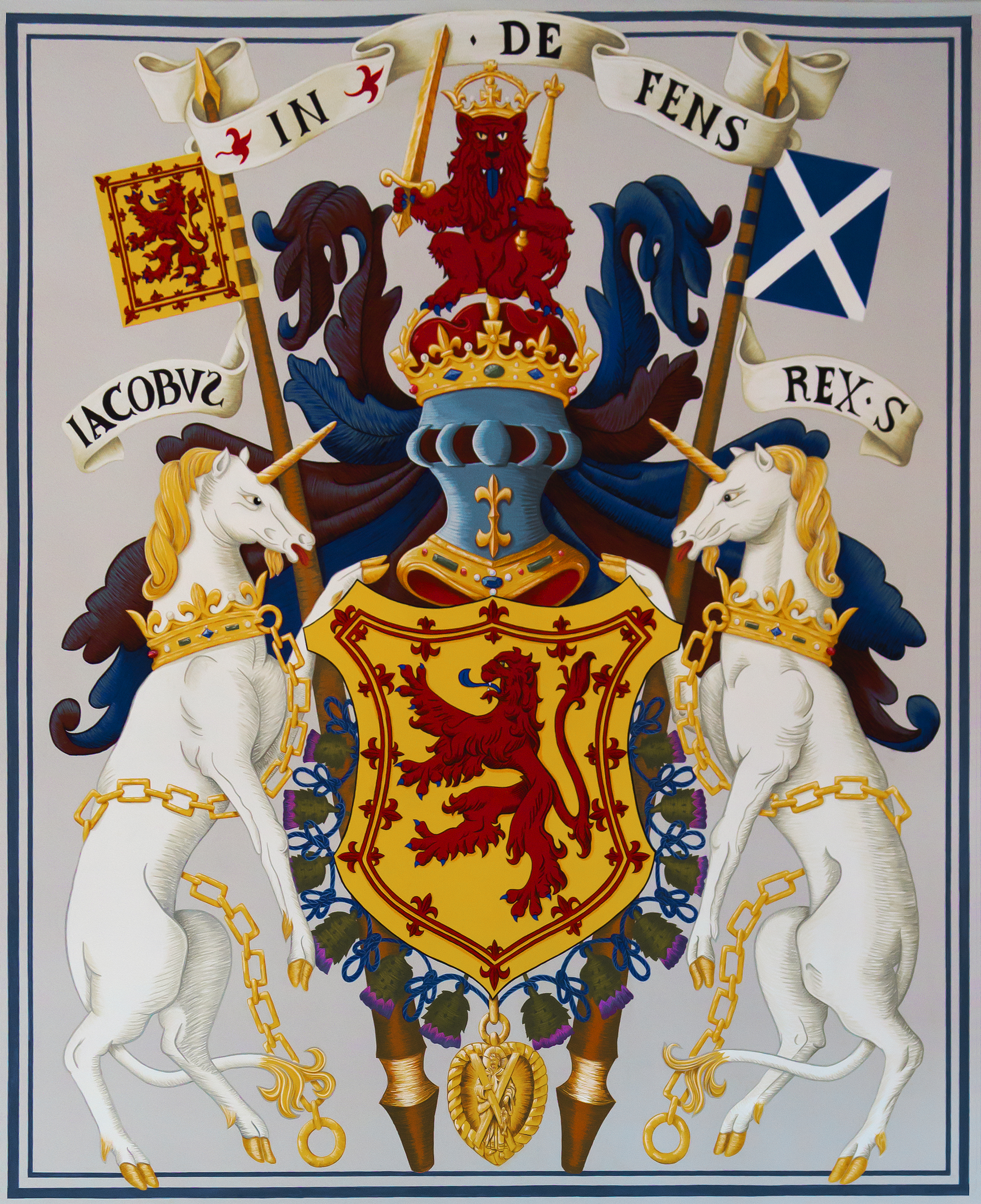 Painting above the fireplace. See it in context... .